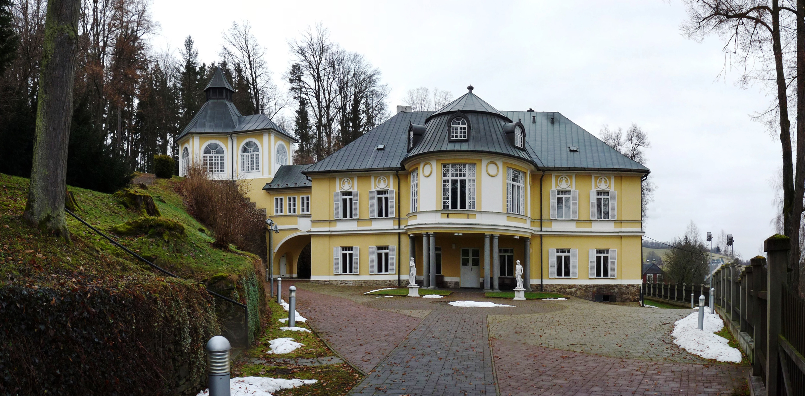 Former Kněžice Castle in the village of Petrovice u Sušice, Klatovy District, Plzeň Region, Czech Republic.